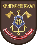 Sleeve patch of the Russian 11th Engineer Brigade (Kamensk-Shakhtinsky)